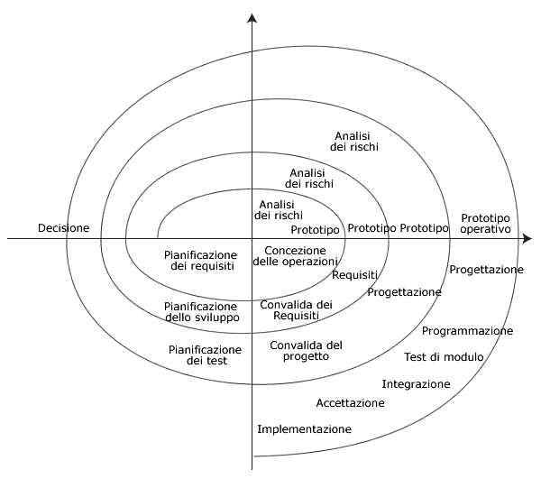 Spiral model of Boehm